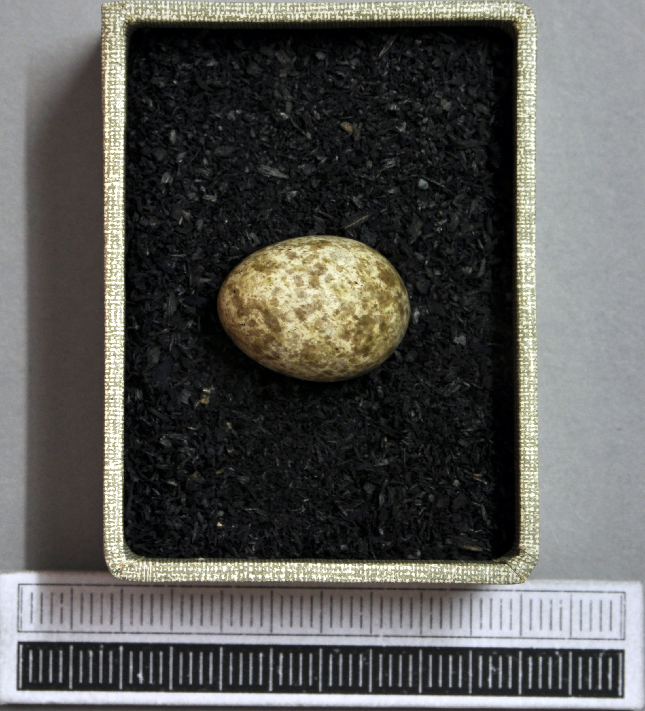 African reed warbler Acrocephalus baeticatus , egg, Coll. Museum Wiesbaden